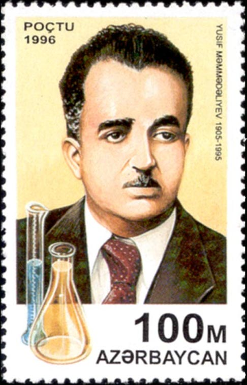 A portrait of Yusif Mammadaliyev is pictured on the stamp. 1905-1995.